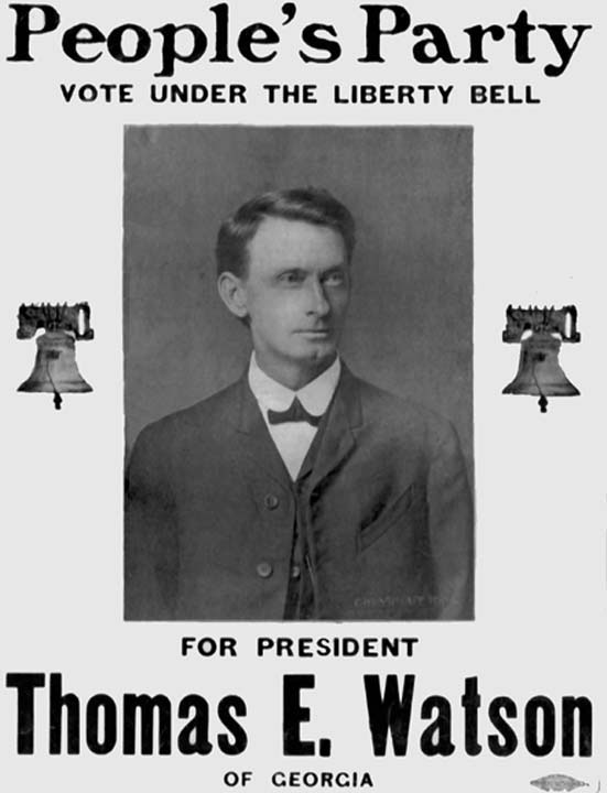 1904 Populist Party Reanee Branch for Thomas E. Watson.